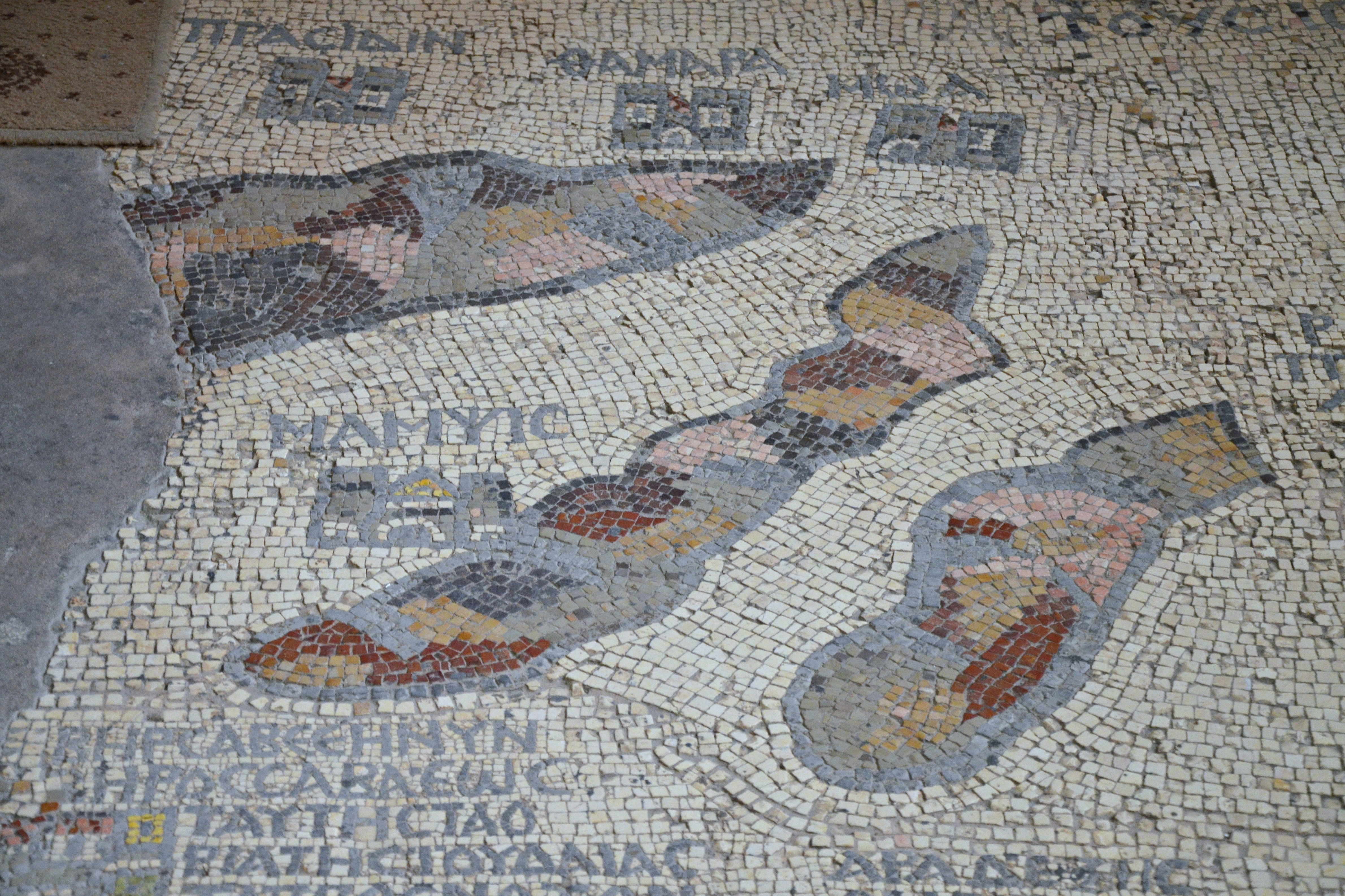 The Madaba Map, part of a floor mosaic in the early Byzantine church of Saint George depicting the Holy Land in the 6th century AD, Madaba, Jordan